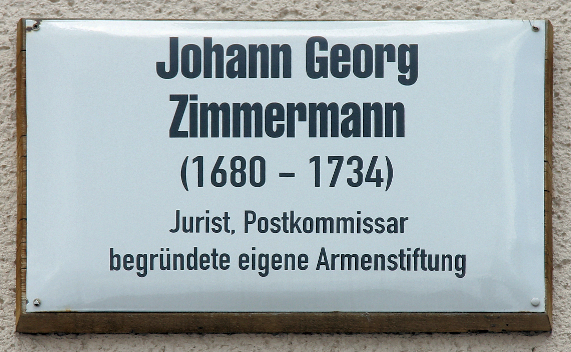 Memorial plaque, Johann Georg Zimmermann, Markt 18, Lutherstadt Wittenberg, Germany Koordinate:51°52′2″N 12°38′36″E / 51.86722°N 12.64333°E